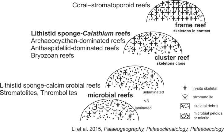 Category A (on the top) possesses a macroskeletal framework. In category B (in the middle), the skeletal forms are locally juxtaposed. Category C (at the bottom) is the microbial reefs